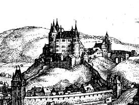 Kauzenburg near Bad Kreuznach (Germany) around 1639.